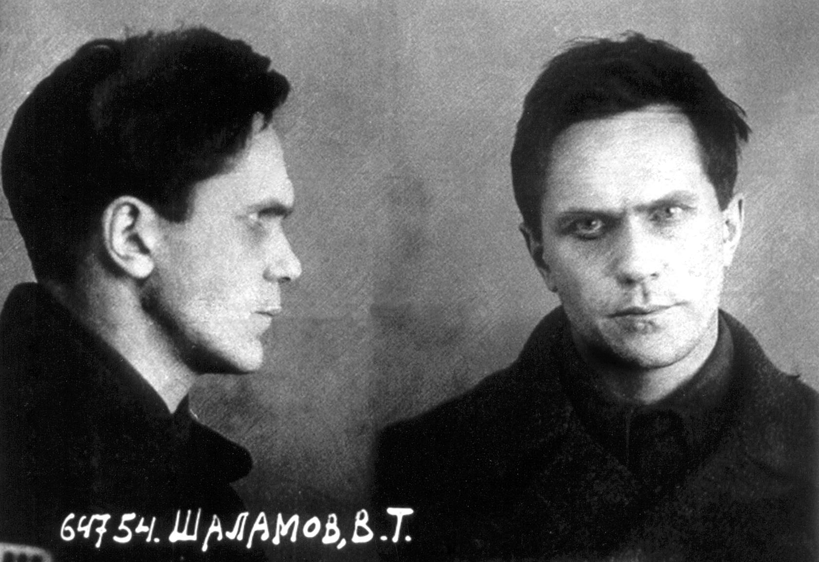 Varlam Shalamov Rus. Варла́м Ти́хонович Шала́мов (1907-1982) - Russian writer, journalist, poet and Gulag survivor. Official NKVD photo from Varlam Shalamow personal file after arrest 1937